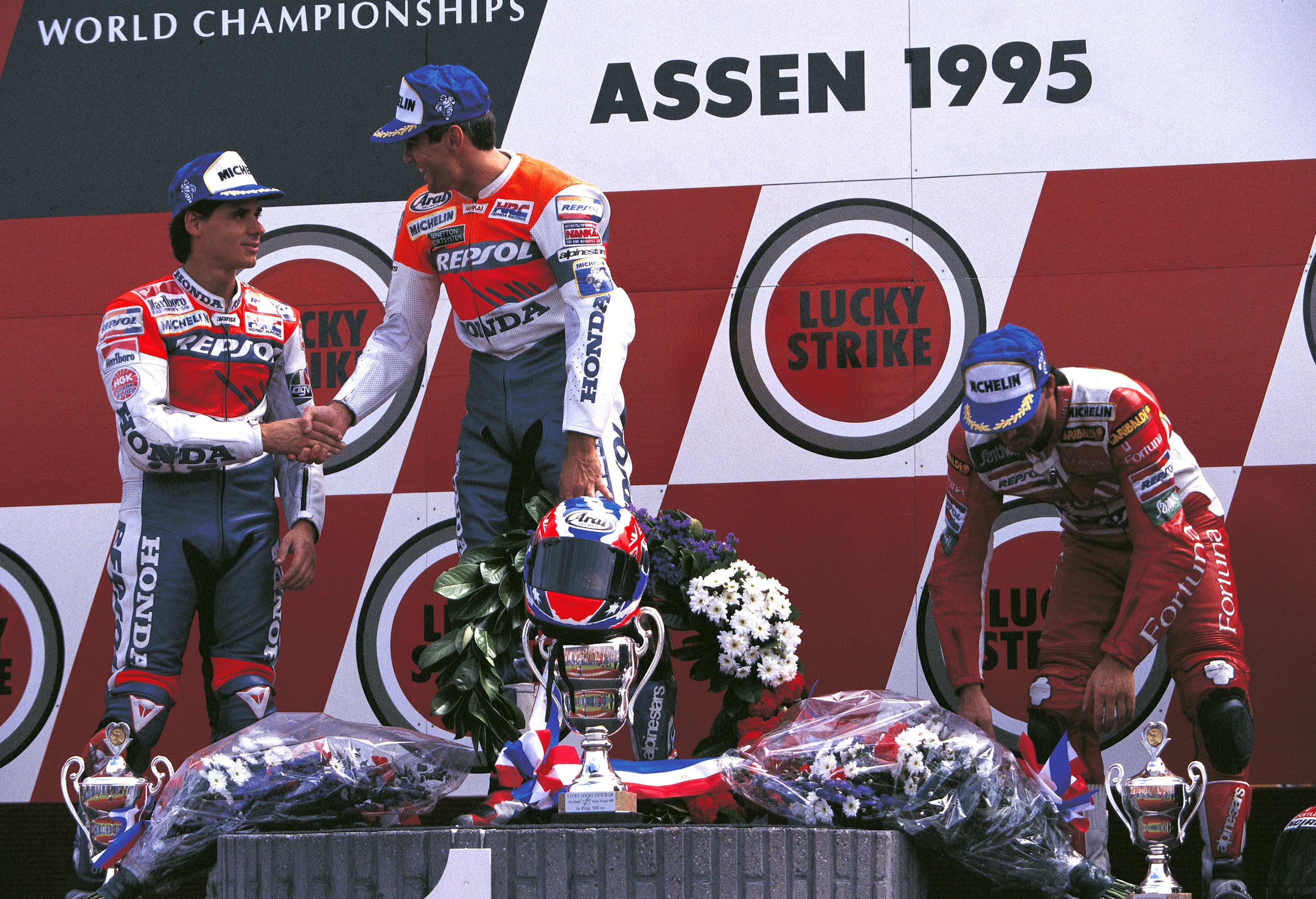 Something was changing. Mick Doohan, greets Alex Crivillé, but neither he nor Alberto Puig were easy for the Australian to beat.